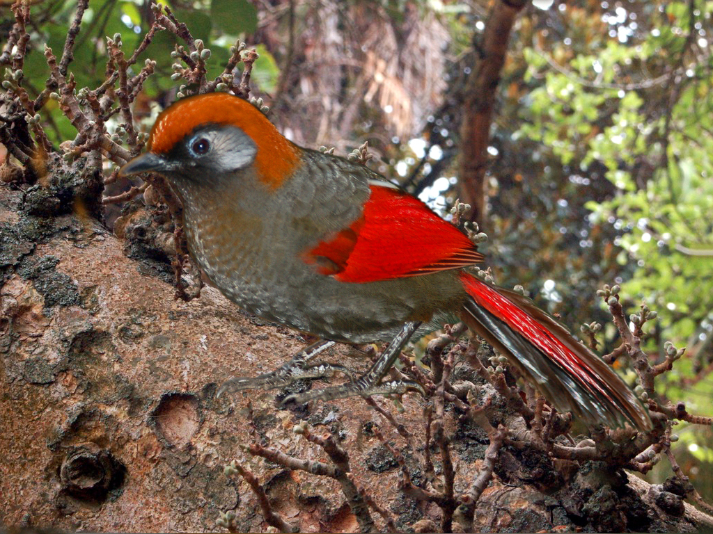 Trochalopteron milnei - the Red-tailed laughingthrush